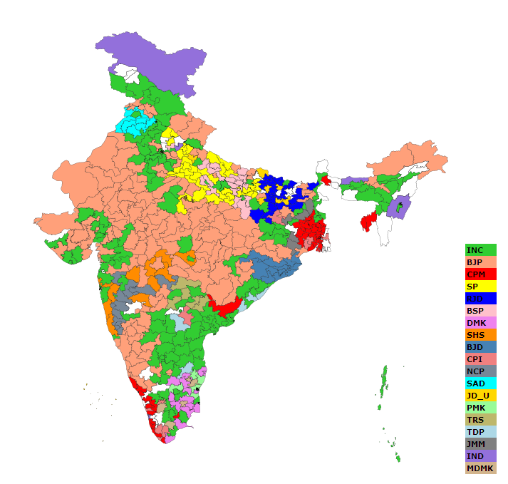 Author: User:Tejas81 Source: GIS Data provided by Election Commission of India Modified using Inkscape, Python scripts.